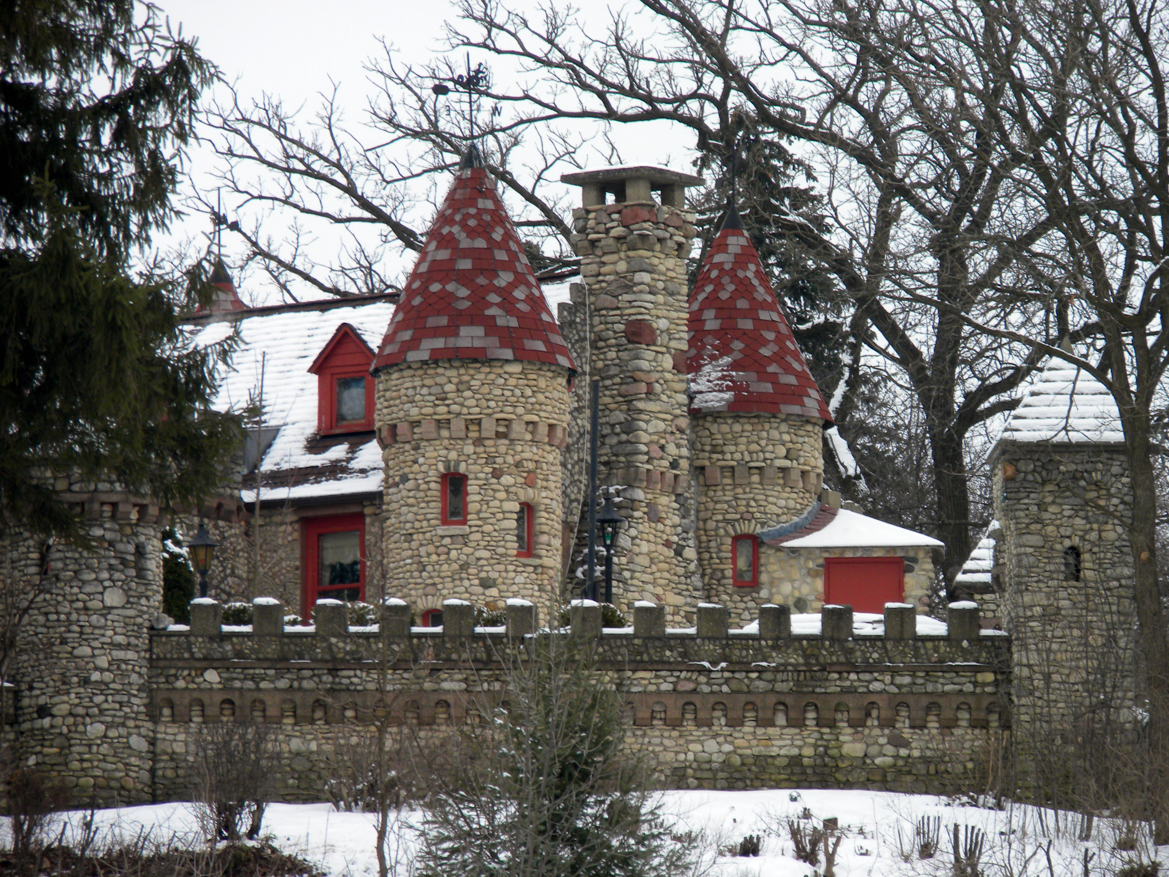 The "Fox River Grove Castle" is located near the Union Pacific railroad racks and US 14 in Fox River Grove, Illinois. Built by an engineer homesick for Luxemburg. Not a National Registered Historical Site. In McHenry County. Also called Bettendorf Castle. Theodore Bettendorf, who played in the original Vianden Castle in Luxembourg as a child, started building the castle in 1931, remained a bachelor and built for over 30 years. Sometimes it was used for weddings, etc. but it has always been a private residence. Current owner likes his privacy, but "gave me permission" to photograph from the public street.